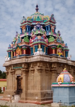 Alagaputturpadikkasunathartemple அழகாப்புத்தூர்படிக்காசுநாதர்கோயில்